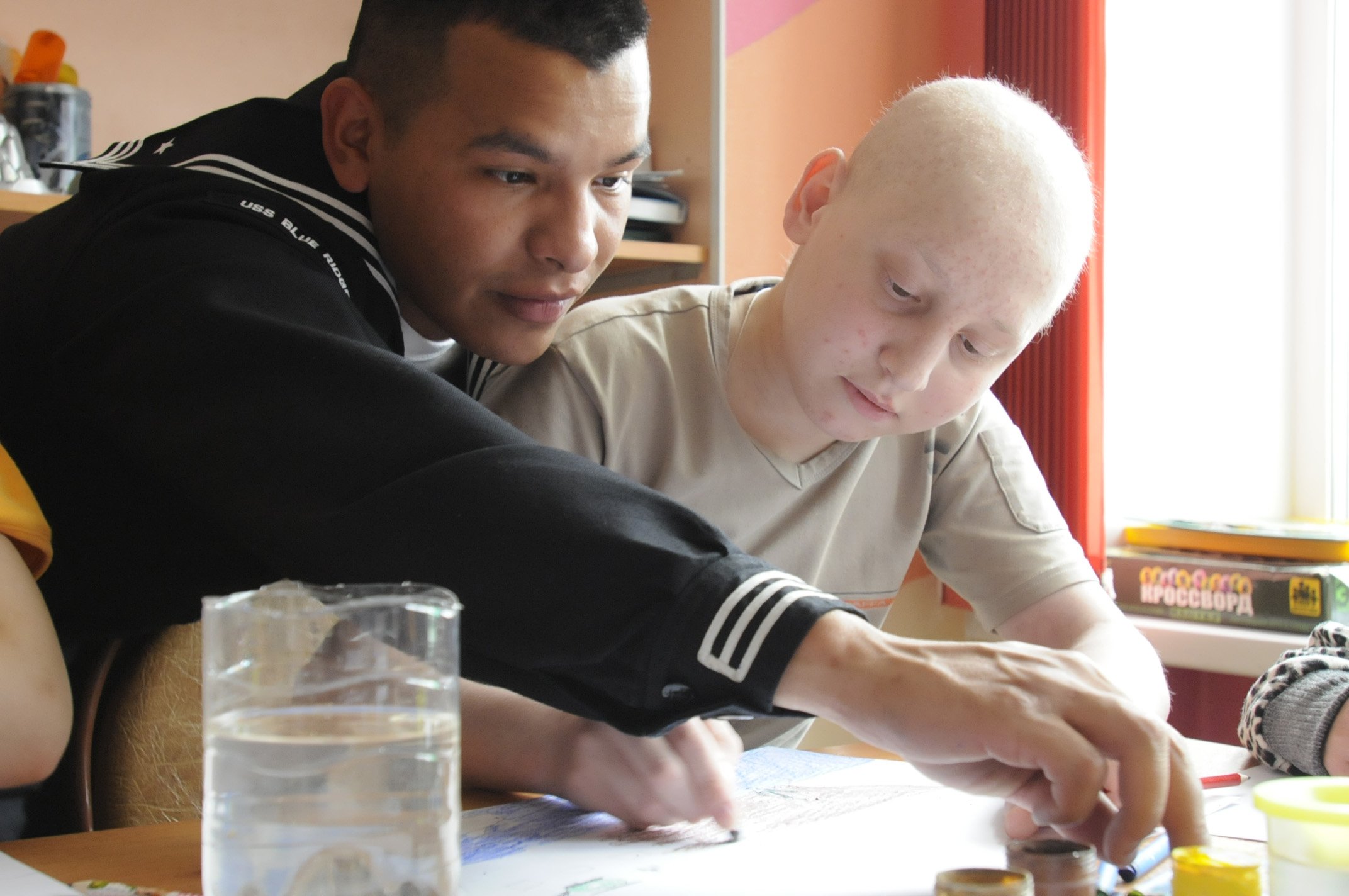 VLADIVOSTOK, Russia (May 7, 2010) Logistics Specialist Seaman Sergio Torres, assigned to the U.S. 7th Fleet command ship USS Blue Ridge (LCC 19), draws pictures with a child at the Vladivostok children's cancer ward. Sailors from Blue Ridge will be engaged in a number of community outreach events in Vladivostok and will march with members of the Russian military during a parade to commemorate the 65th anniversary of Victory Day, a national holiday in Russia commemorating the end of World War II. (U.S. Navy photo by Mass Communication Specialist Seaman Brian A. Stone/Released)